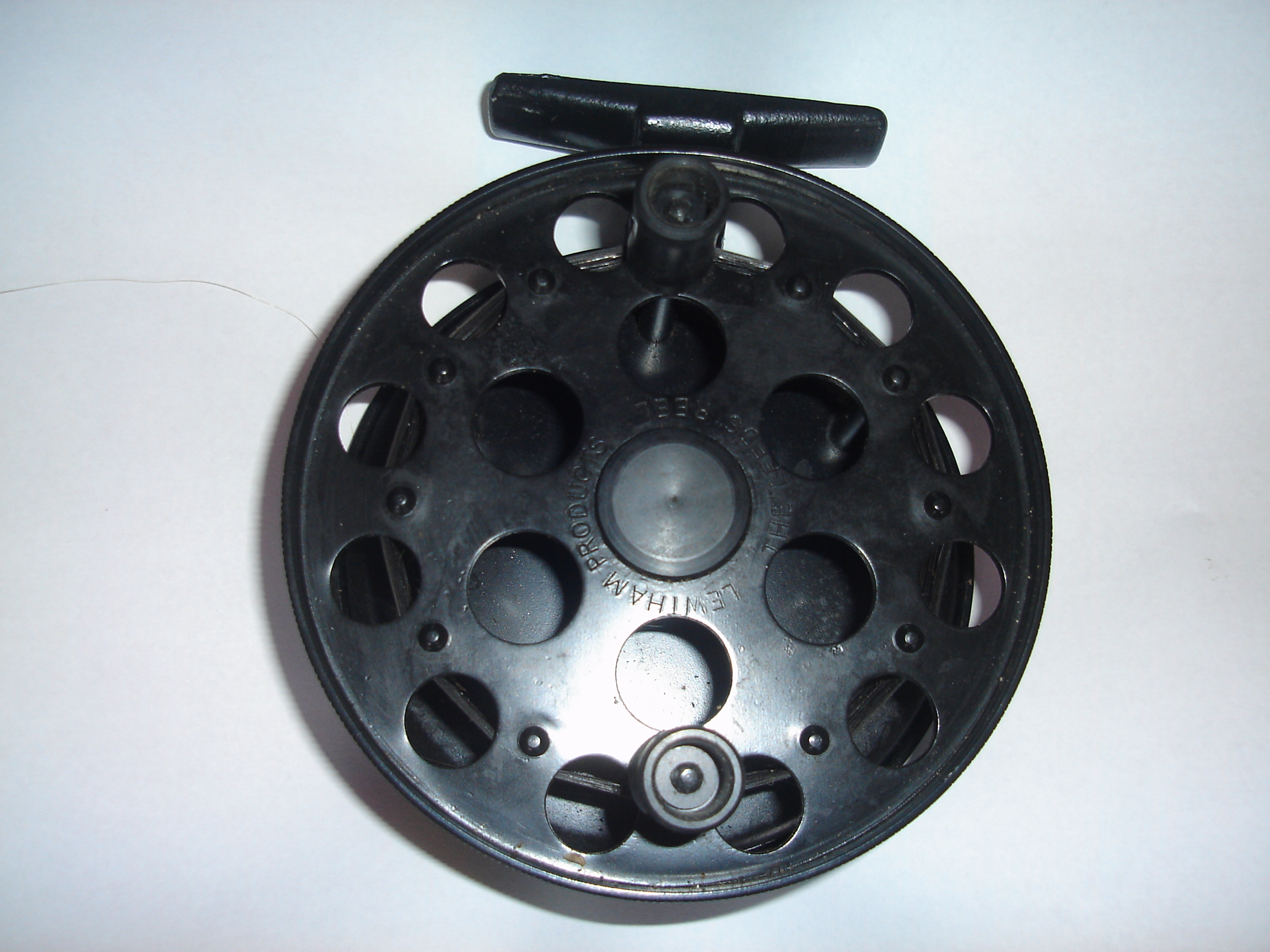 A picture of a centre-pin reel